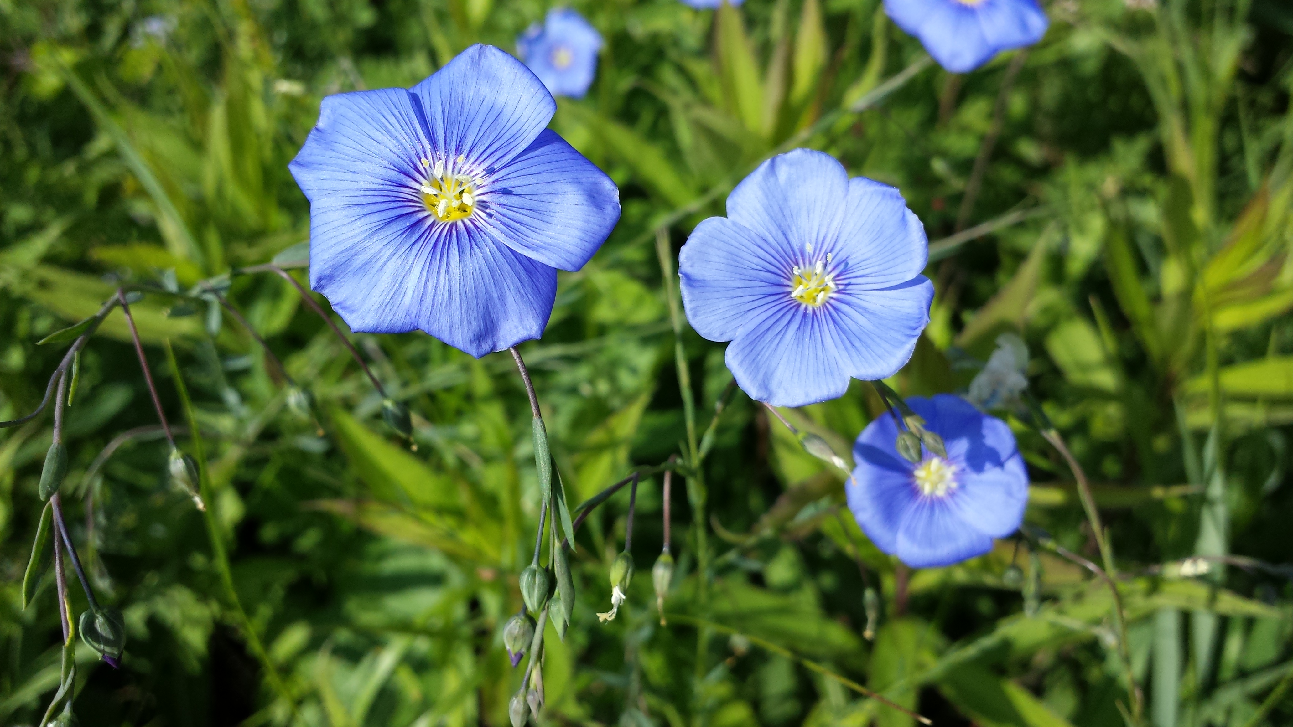 Flowers Taxon: Linum austriacum (sensu Fischer et al. EfÖLS 2008 ISBN 978-3-85474-187-9) Location: near Alte Schanzen, Floridsdorf, Vienna - ca. 220 m a.s.l. Habitat: fallow land